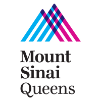 The logo for the Mount Sinai Queens hospital.